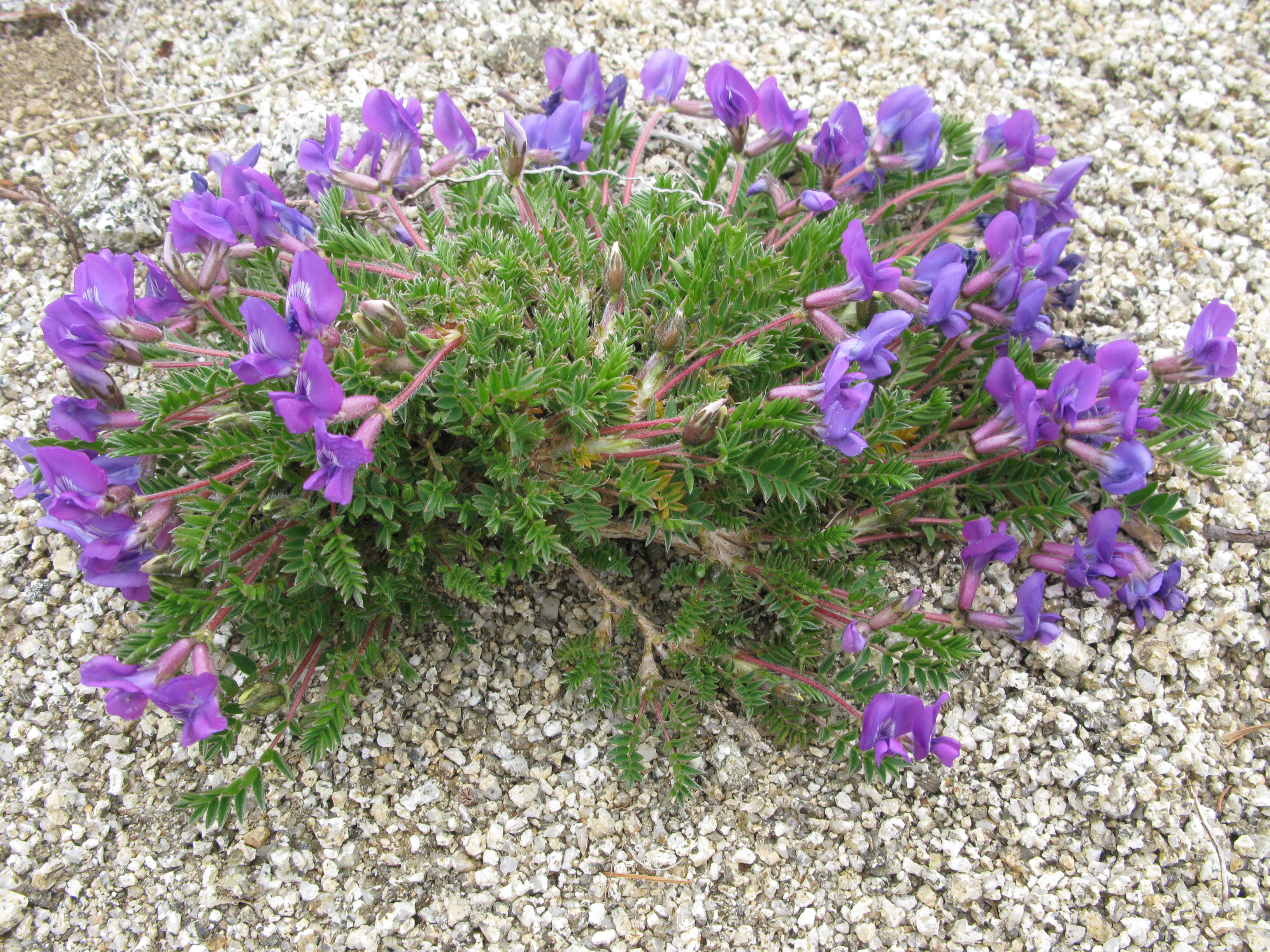 Oxytropis japonica var. japonica, Mt. Iidesan, Fukushima pref., Japan